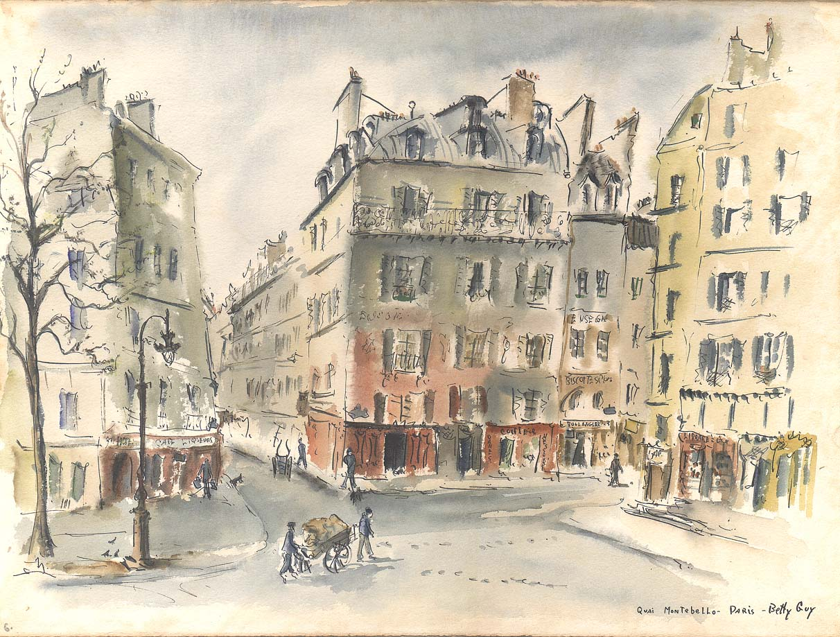 Photo of a Betty Guy Watercolor.